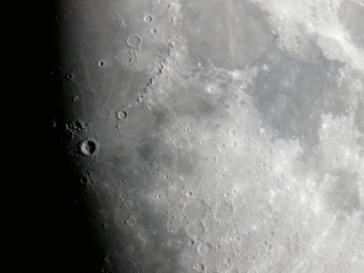 Crater Copernicus on lunar terminator